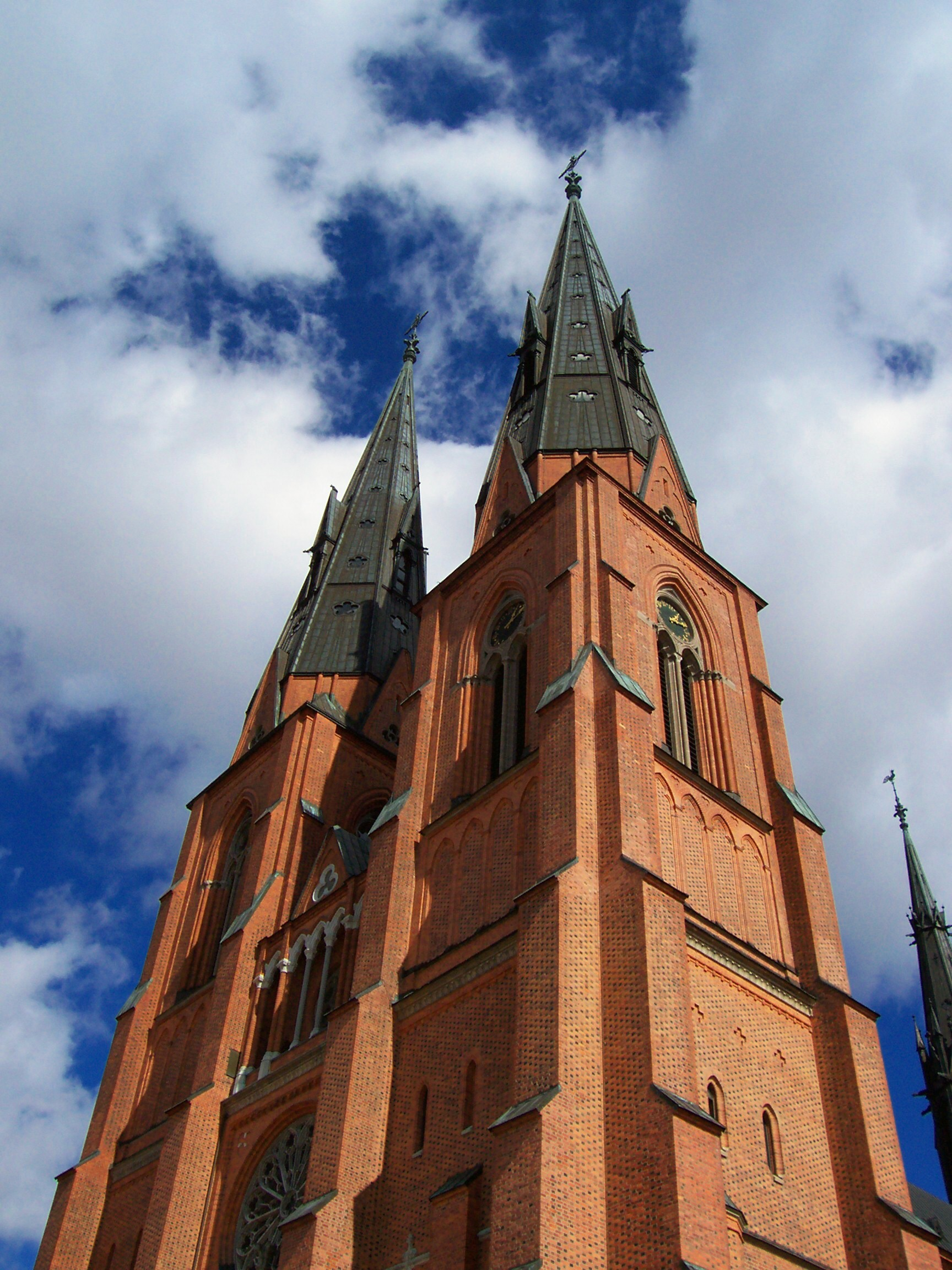 Towers of the Uppsala Cathedral.